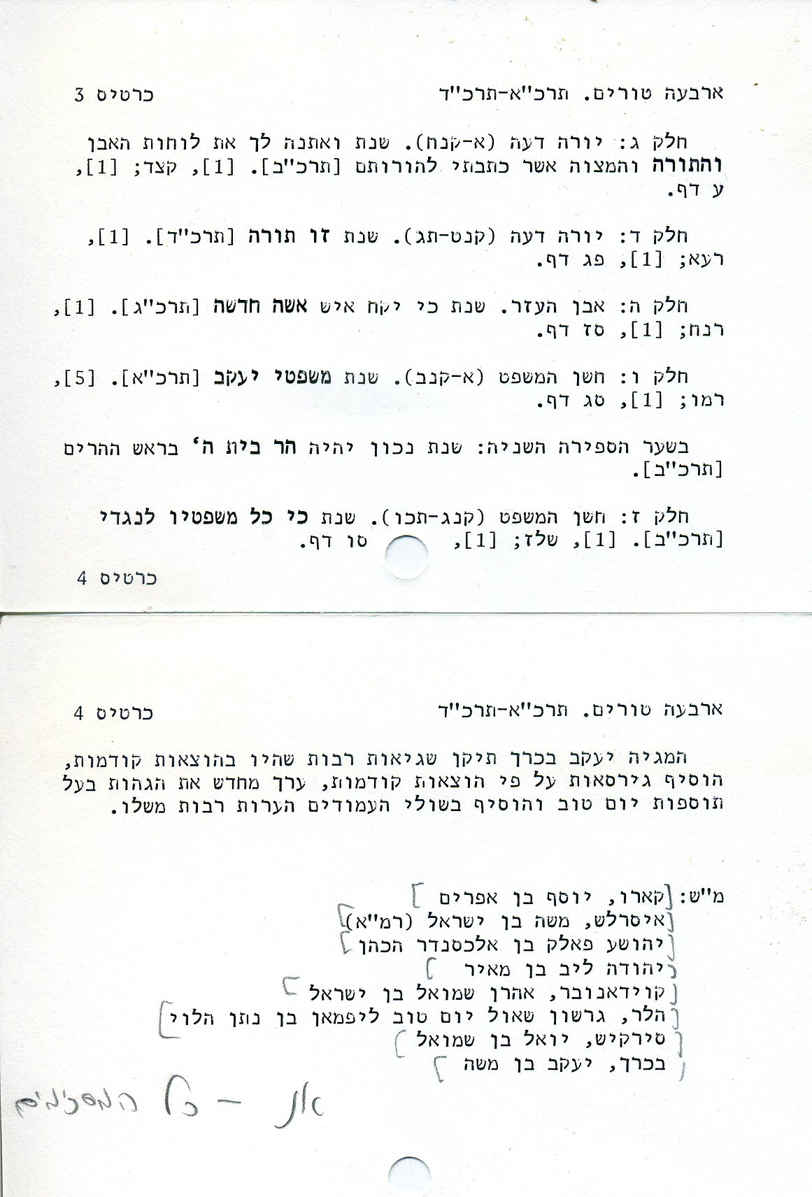 An entry of the Hebrew bibliography catalog